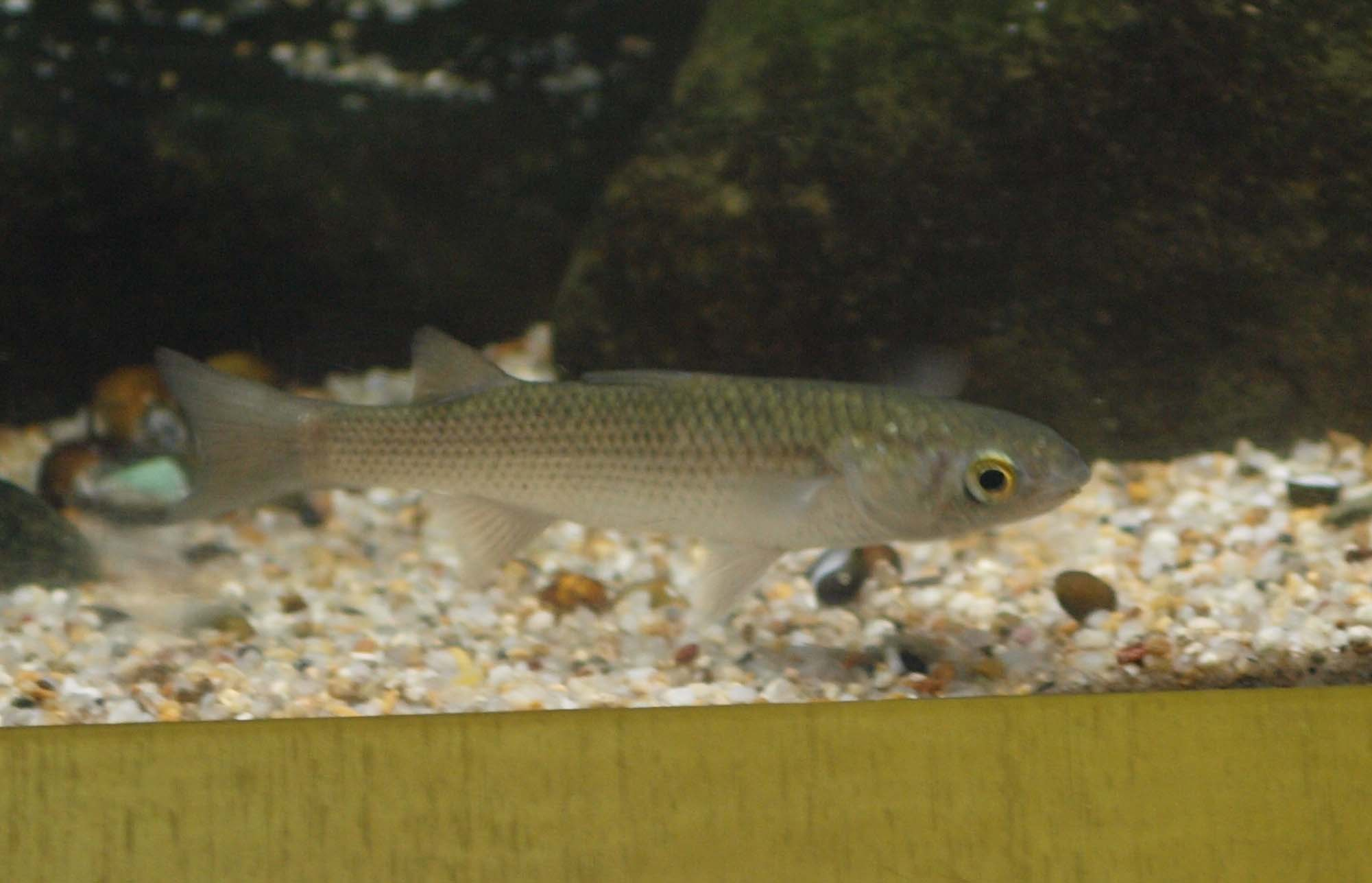 Redlip mullet (Liza haematocheilus) (Temminck and Schlegel, 1845) from Osaka Suido Kinenkan (water supply memorial museum), Japan